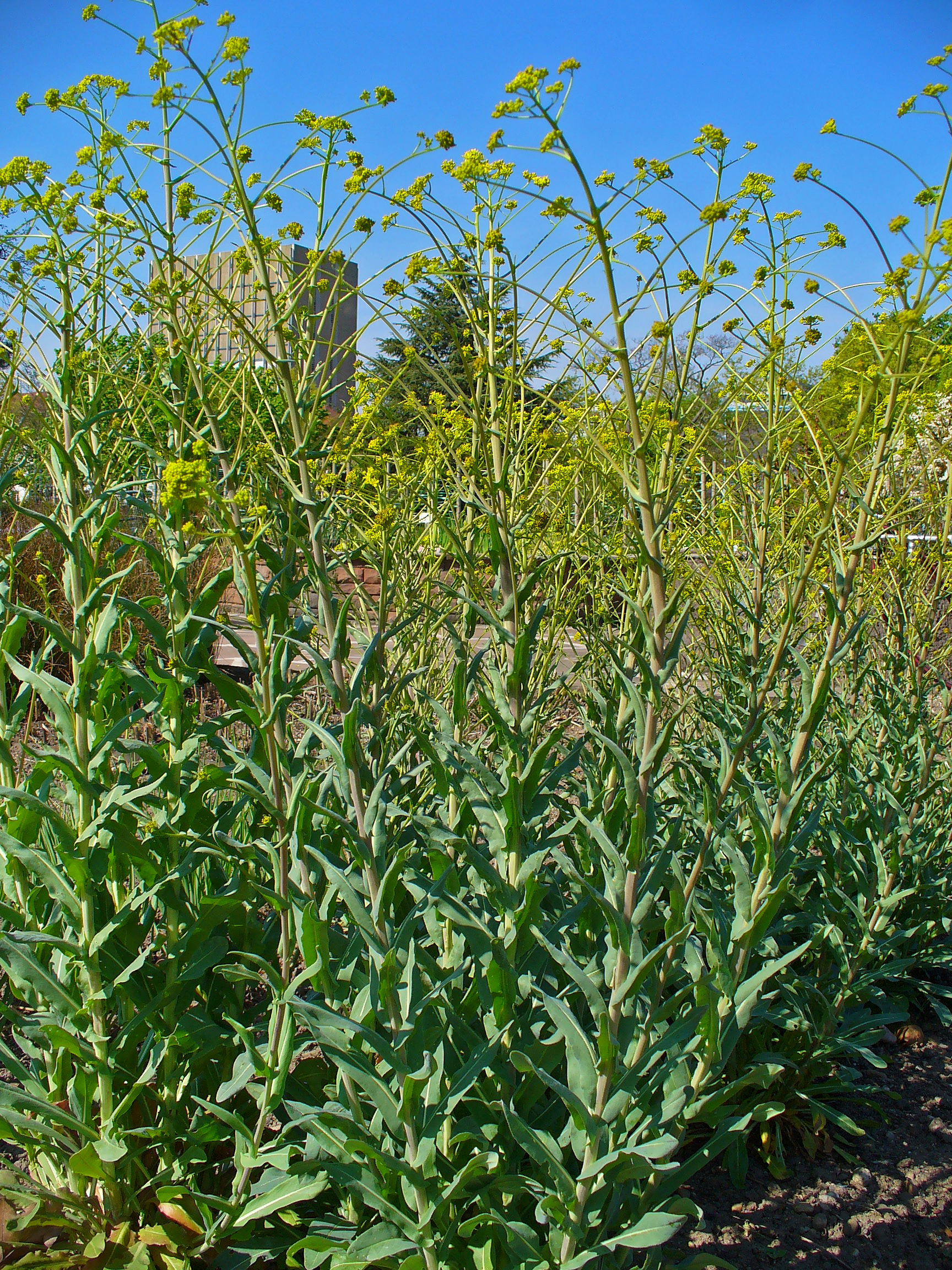 Isatis tinctoria, Brassicaceae, Woad, habitus; Botanical Garden KIT, Karlsruhe, Germany.